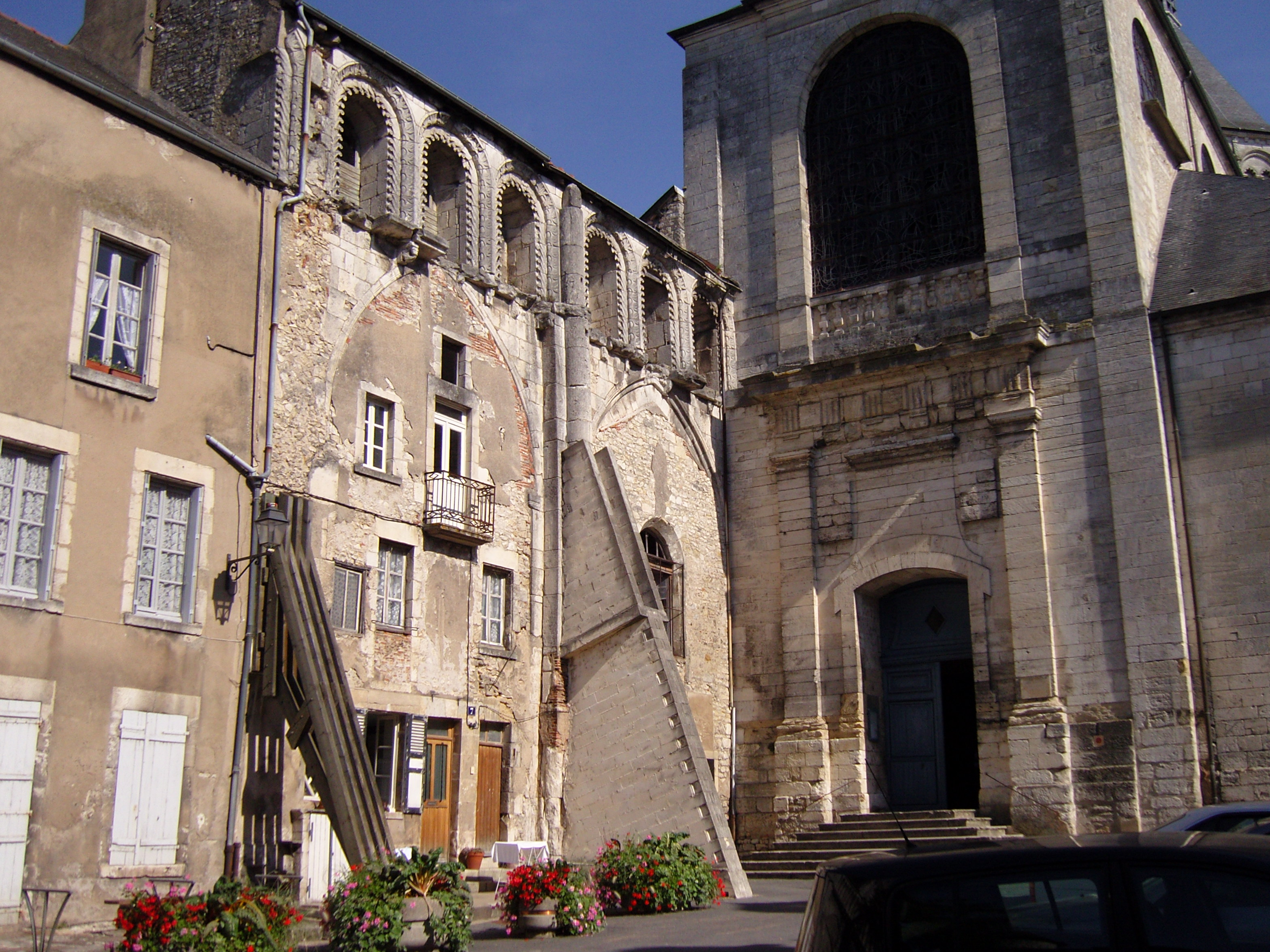 Church in La Charité sur Loire